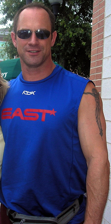 American actor Christopher Meloni in Wilmington, North Carolina while filming Nights in Rodanthe.